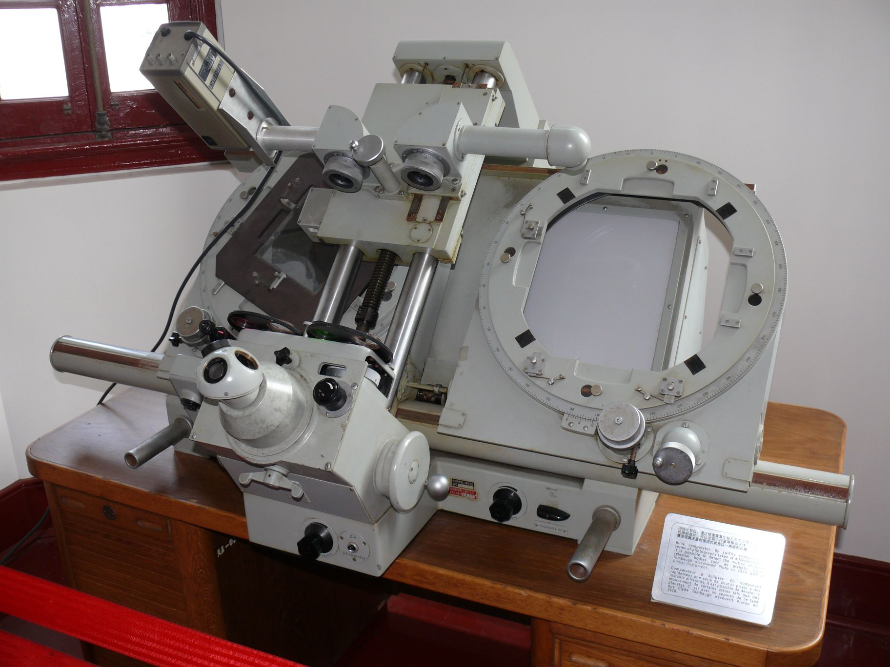 Blink comparator at She Shan Observatory (Shanghai, China). Caption reads: "Blink comparator. By swiftly comparing a series of photographs taken at different times, it is possible to detect the motion of some celestial bodies such as planets. Clyde Tombaugh discovered Pluto in 1930 with a similar instrument."